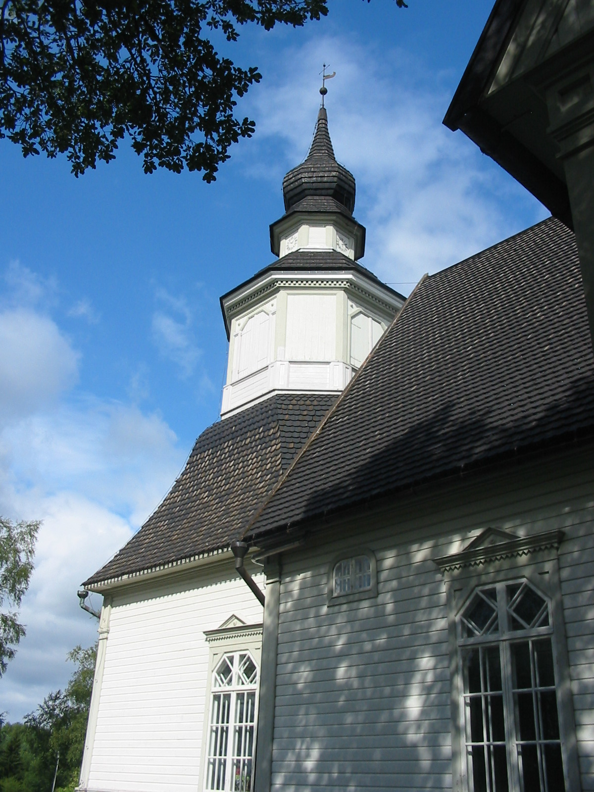 Marttila church bell tower